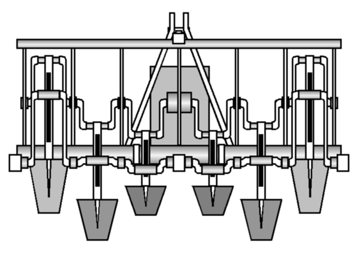 Spading machine